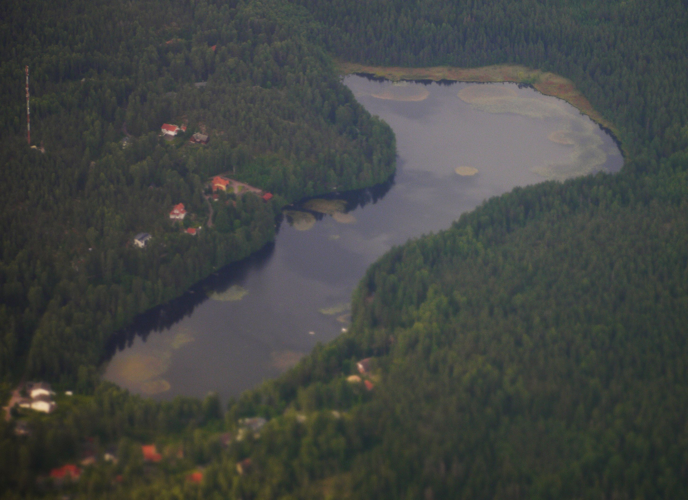 Aerial picture of Lake Kalajärvi in Espoo, Finland.